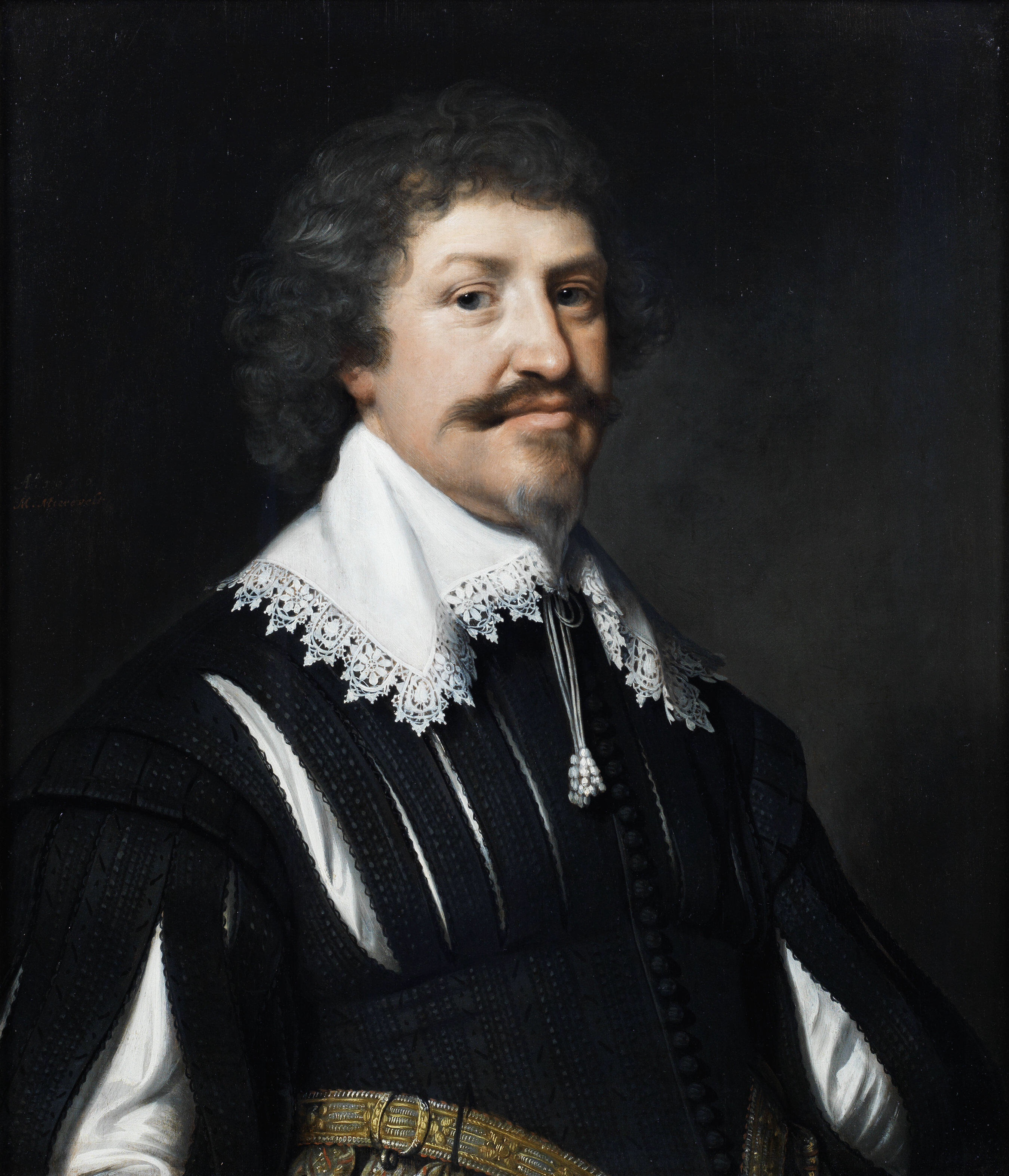 Portrait of Sir Henry Vane the Elder (1589-1655)